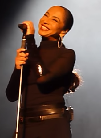 Sade performing at Chile on October 13 2011